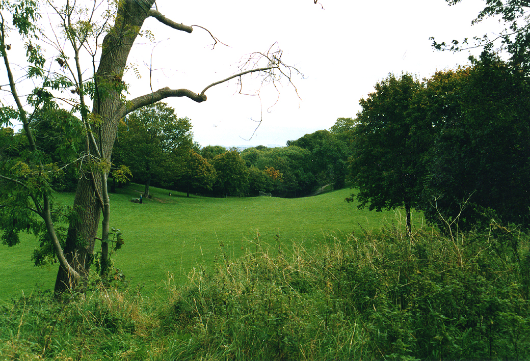 Redland Green Park in the early Summer, Bristol